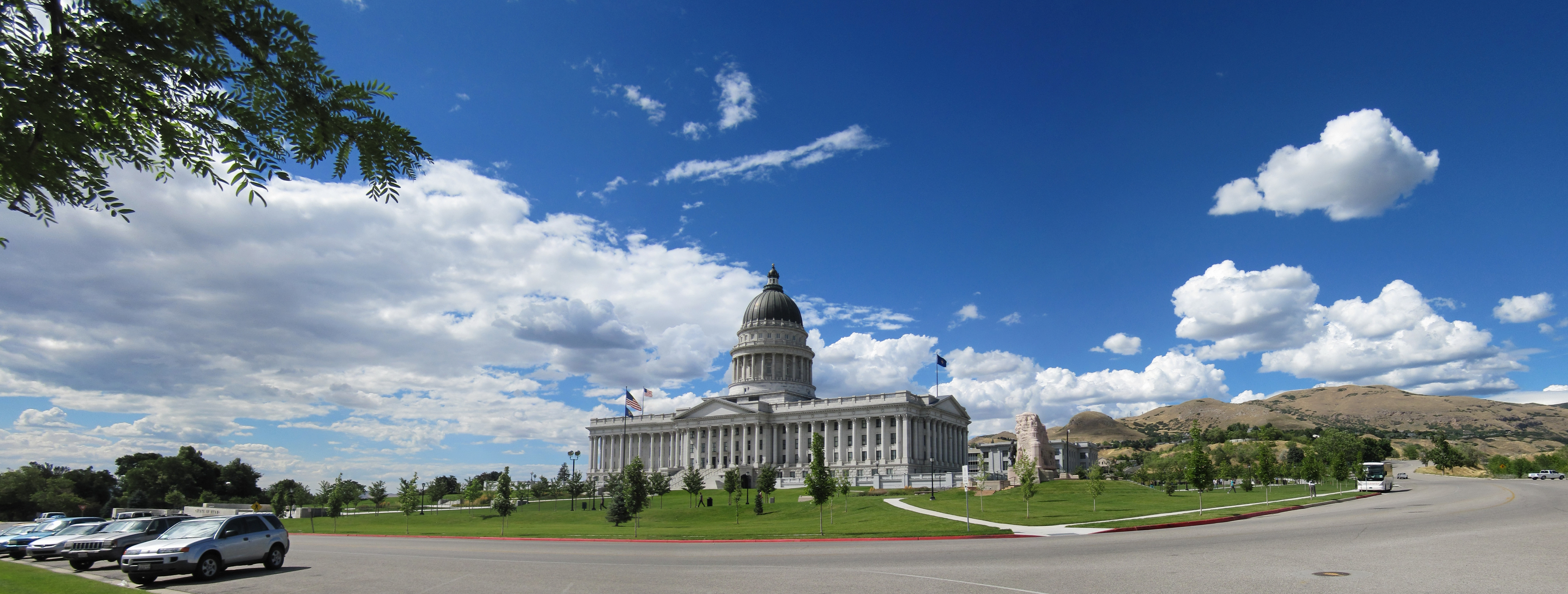 Capitol Building panorama front, South East corner perspective, August 2010 after vegetation has recovered from renovations. Ensign peak is visible in the background, with its obelisk-like monument perched on top.